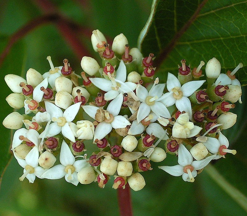 Cornus alba